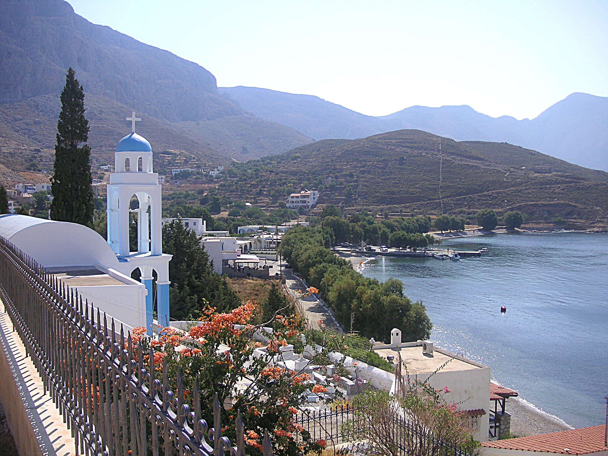 Photo by KF, July 2005.